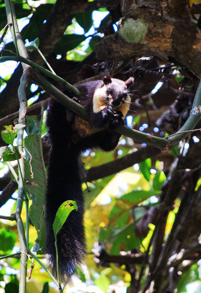 Malayan Giant Squirrel at Manas National park (Assam).